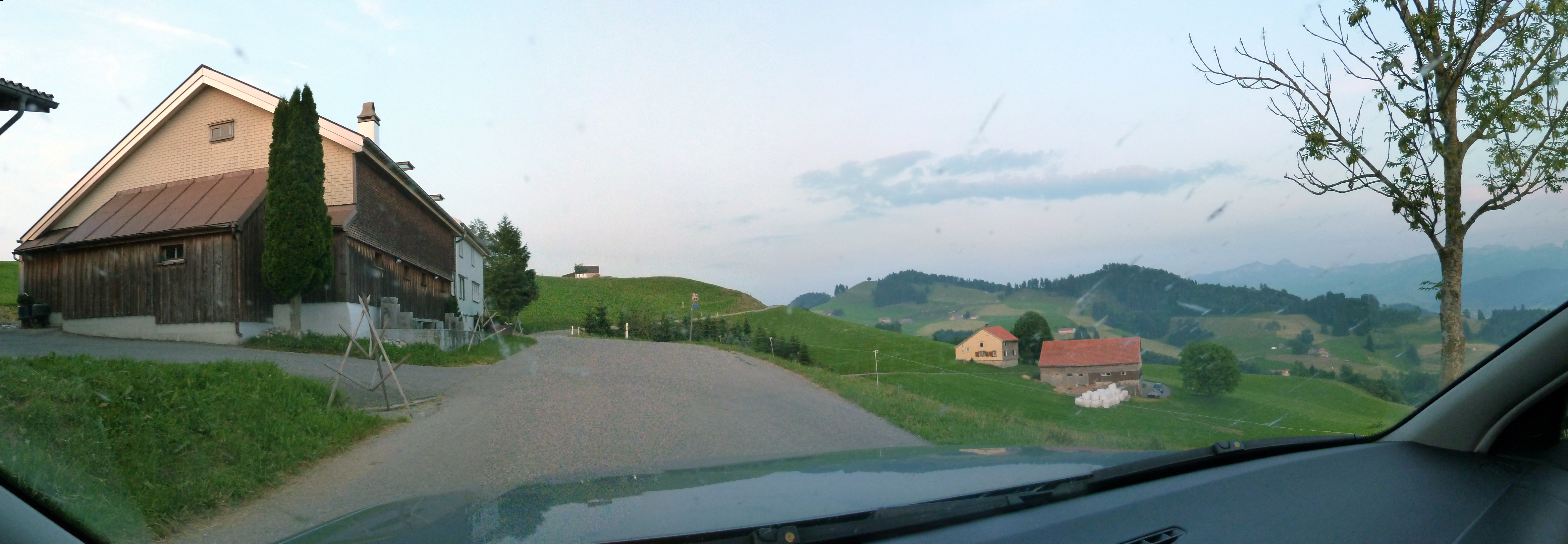 Panorama of the Heutili-Schlatt-Leimensteig in Schlatt-Haslen, AI, Switzerland